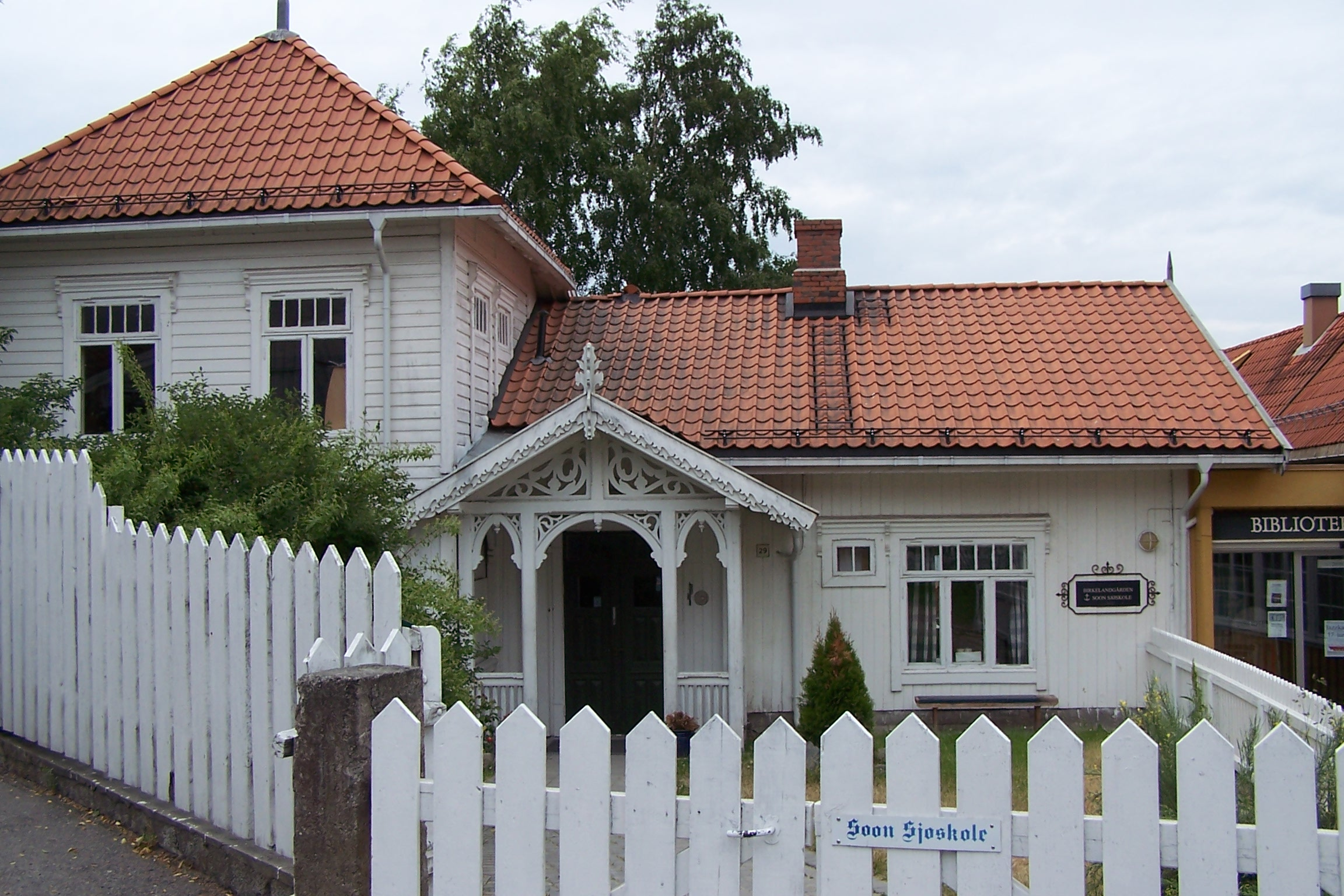 Son, Norway: Birkelandsgården, with Soon Sjøskole (Son Sea School)